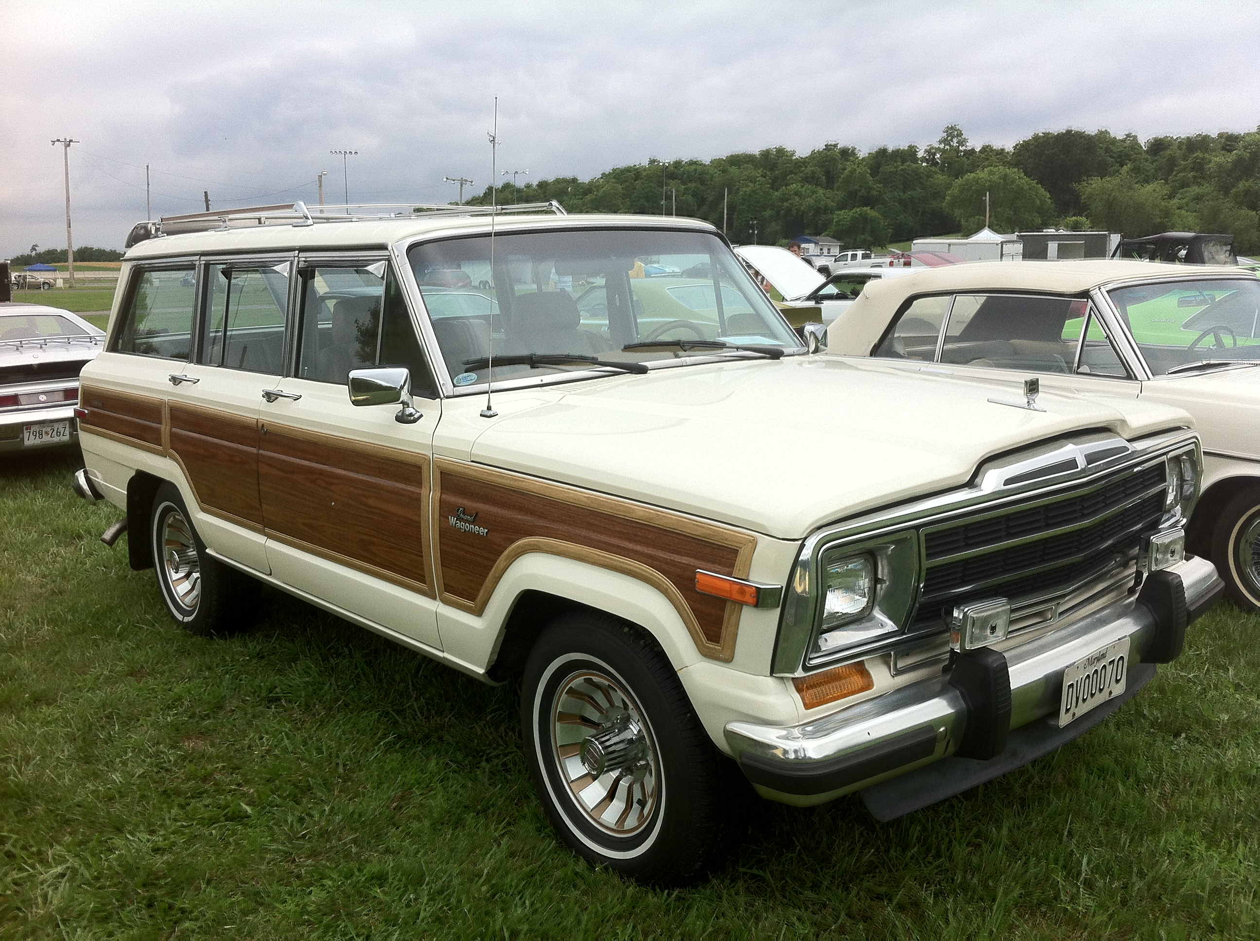 1986 Jeep Grand Wagoneer (SJ) finished in white. Right front view. Original owner. Picture taken at the 23rd East Coast AMC Day held at the Mason-Dixon Dragway located near Boonsboro, Maryland.